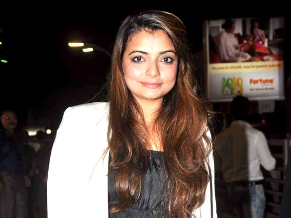 Vaibhavi Merchant don2 sceening